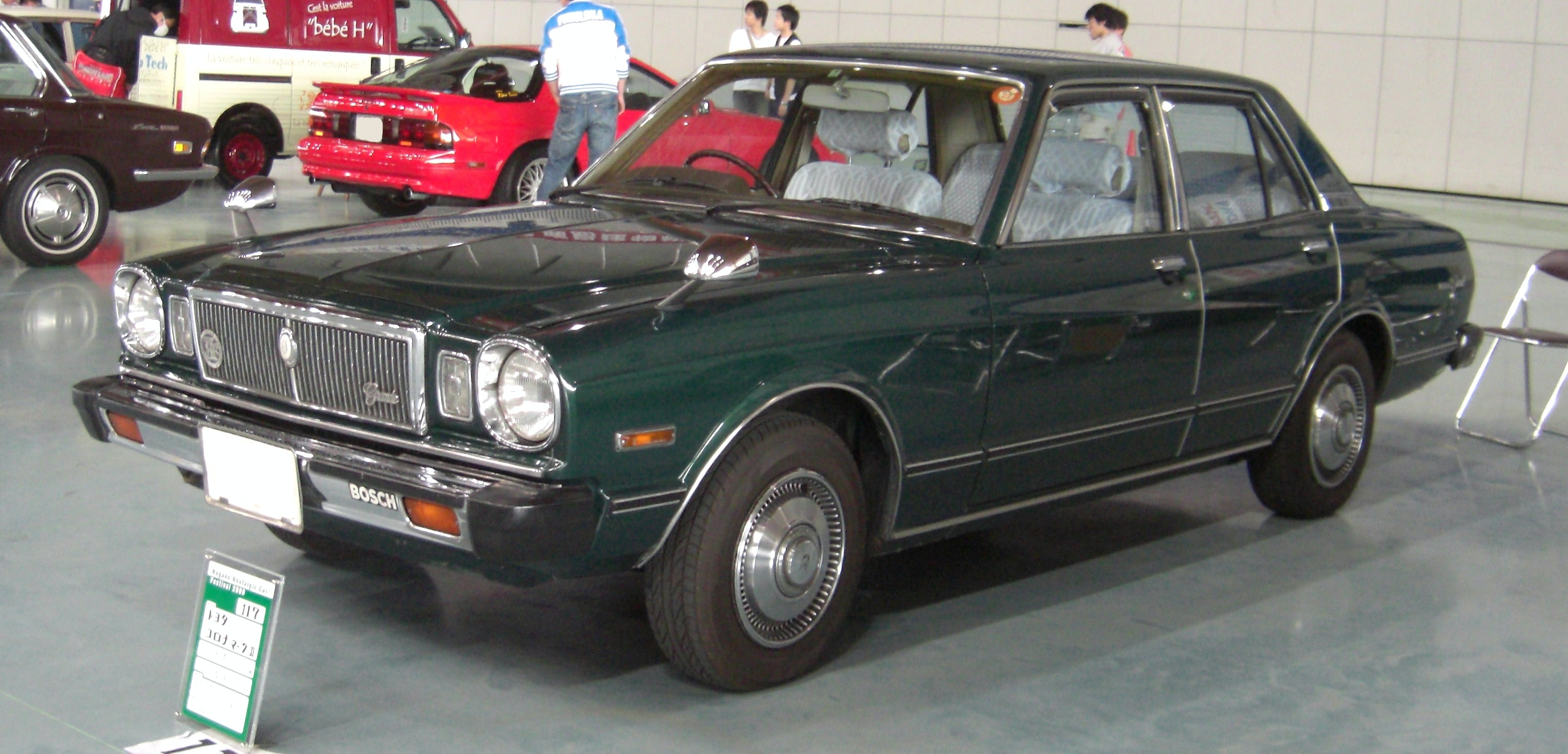 Toyota Corona Mark II